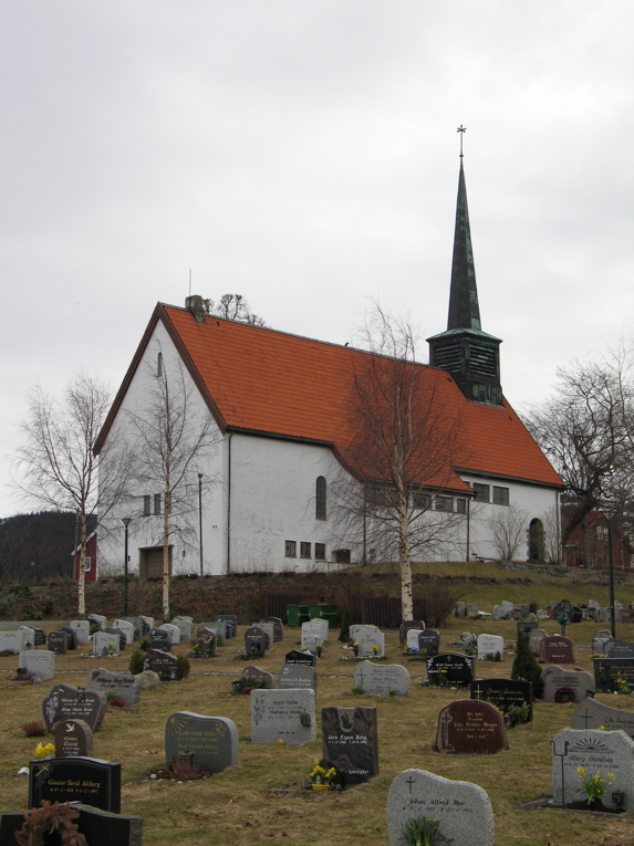 Ranheim church near Trondheim - consecrated 1889.